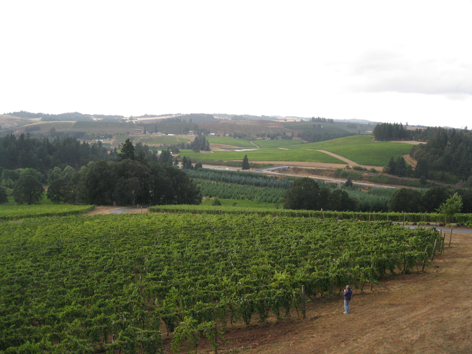 Vineyards in the Oregon wine region of Willamette Valley owned by the winery Willamette Valley Vineyards